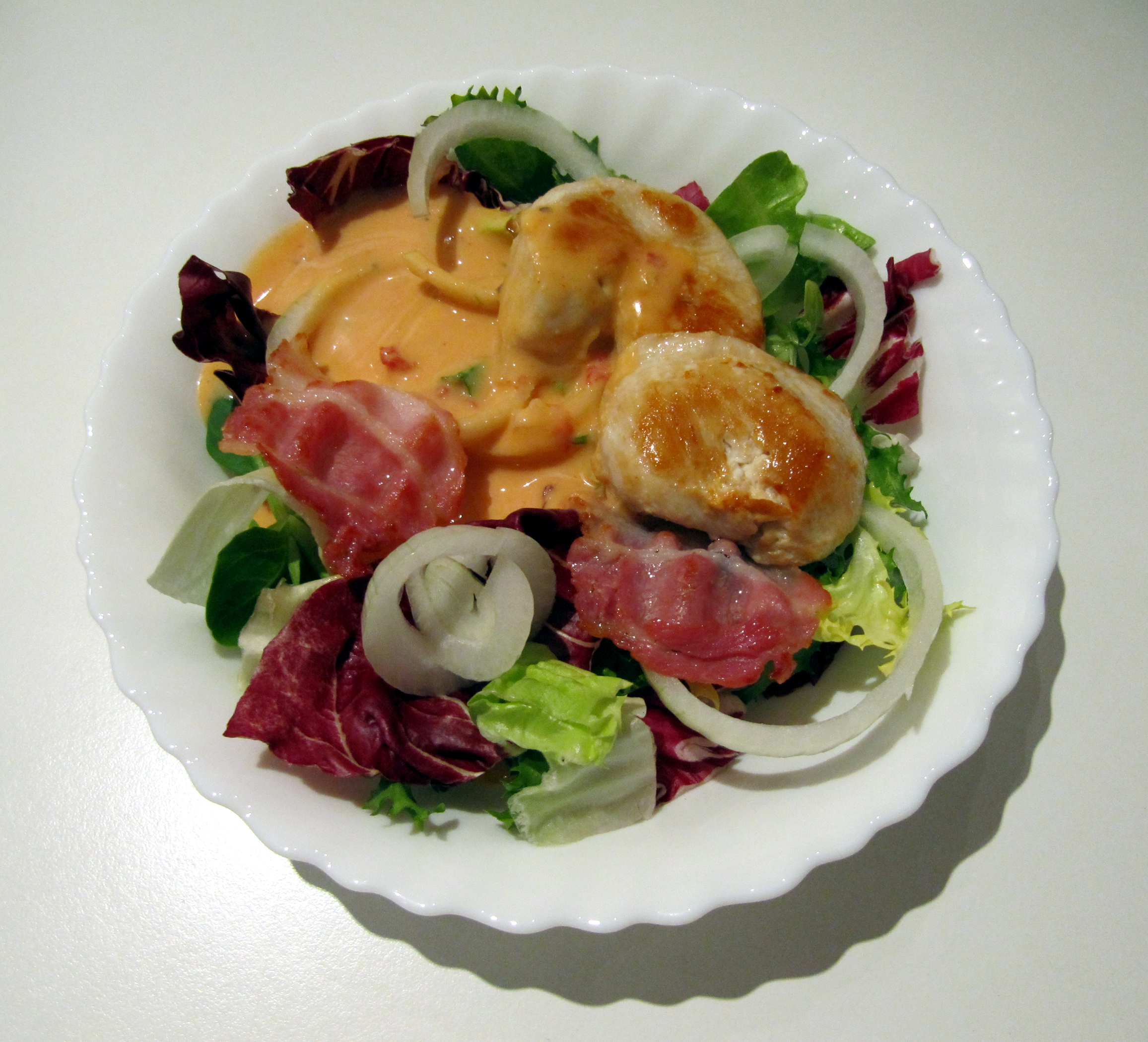 German Ranch Dressing